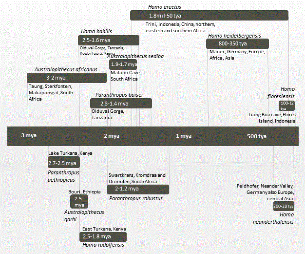 A timeline depicting observed evidence of post-canine megadontia